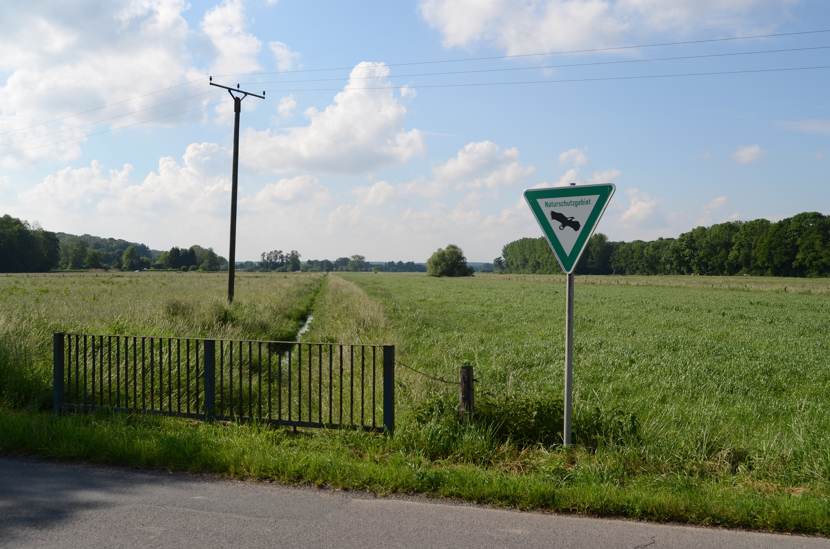 Sonsbeck (North Rhine-Westphalia, Germany) – lowland landscape and nature reserve Grenzdyck This photograph was taken with a Nikon D7000.